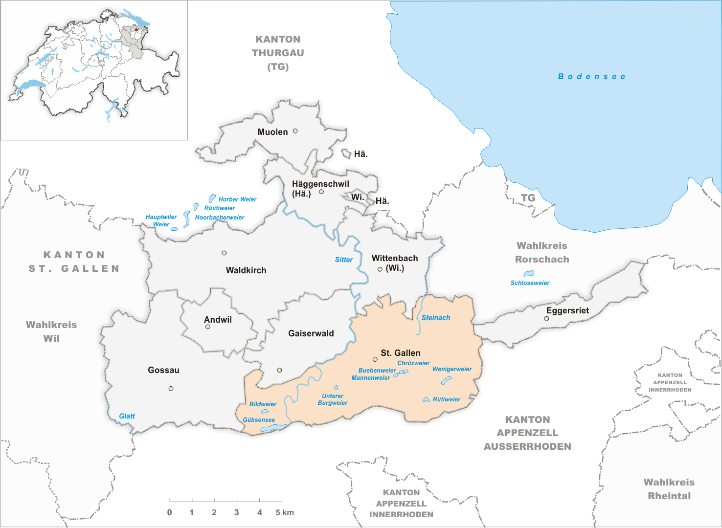 Municipality St. Gallen